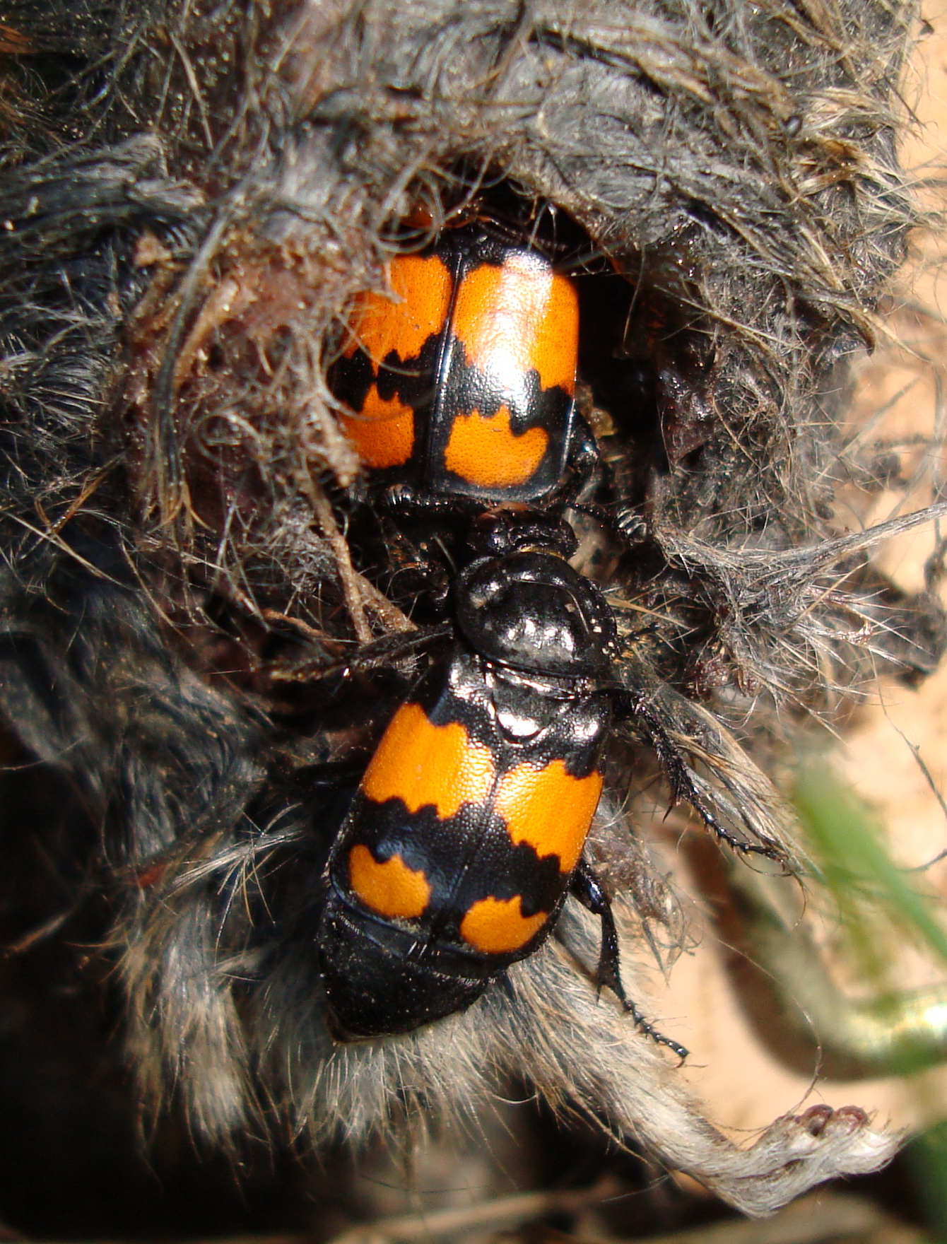 Two common sexton beetles (Nicrophorus vespilloides) in a dead rodent caught in a mouse trap. Picture taken in southern Dalarna, Sweden.